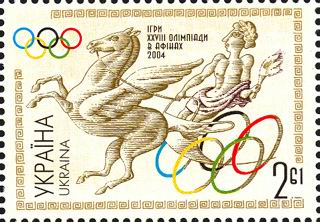 Stamp of Ukraine